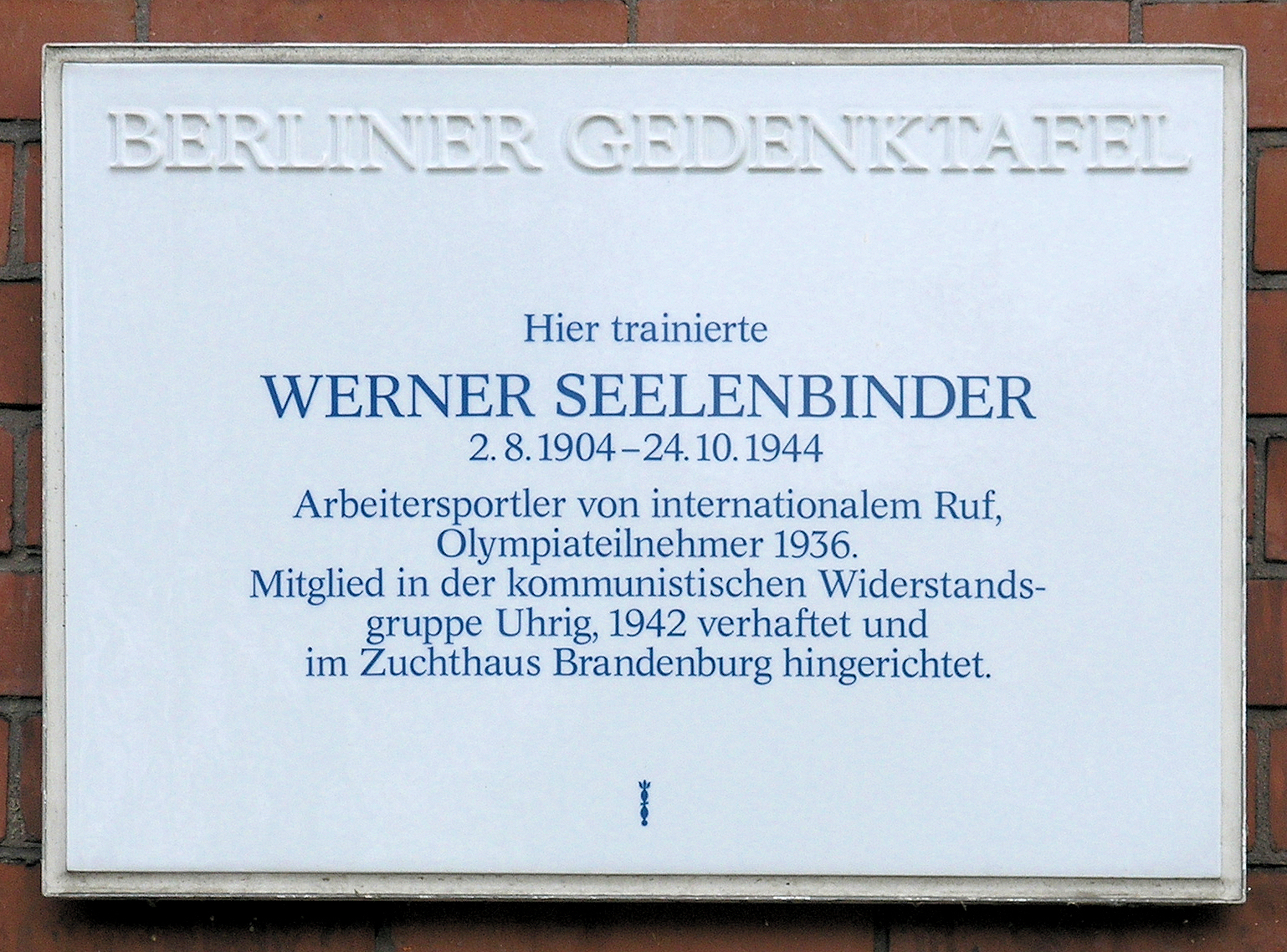 Berlin memorial plaque, Werner Seelenbinder, Thomasstraße 39, Berlin-Neukölln, Germany Koordinate:52°28′21″N 13°26′8″E / 52.4725°N 13.43556°E